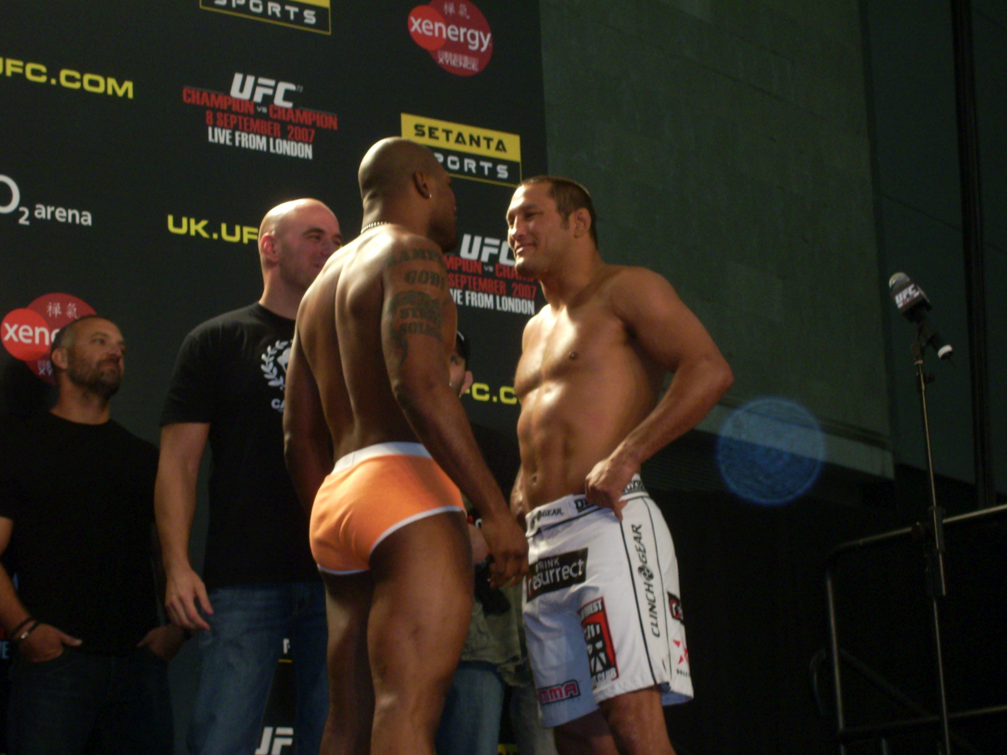 UFC 75: Champion vs. Champion - Dan Henderson vs Quinton "Rampage" Jackson face-off.jpg